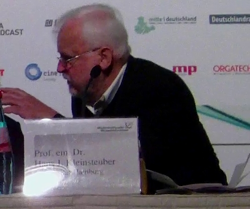 German politics and media scientist Hans-Jürgen Kleinsteuber